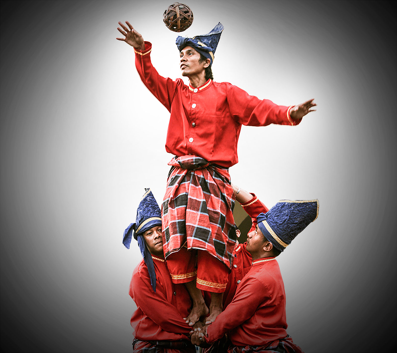 Paraga Dance is a type of dance exhibition from South Sulawesi, Indonesia. It involves a ball called raga, which is moved from foot to hand in cheerful manner. Paraga is usually played by six people while wearing traditional clothes called passapu and sarong. The most interesting part is when the players start to hold other players up high while maintaining the balance so they do not fall to the ground.